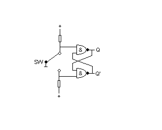 contact bounce eliminator